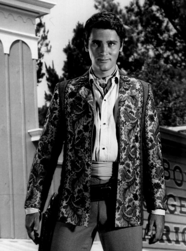 Photo of Robert Wolders from the television program Laredo.